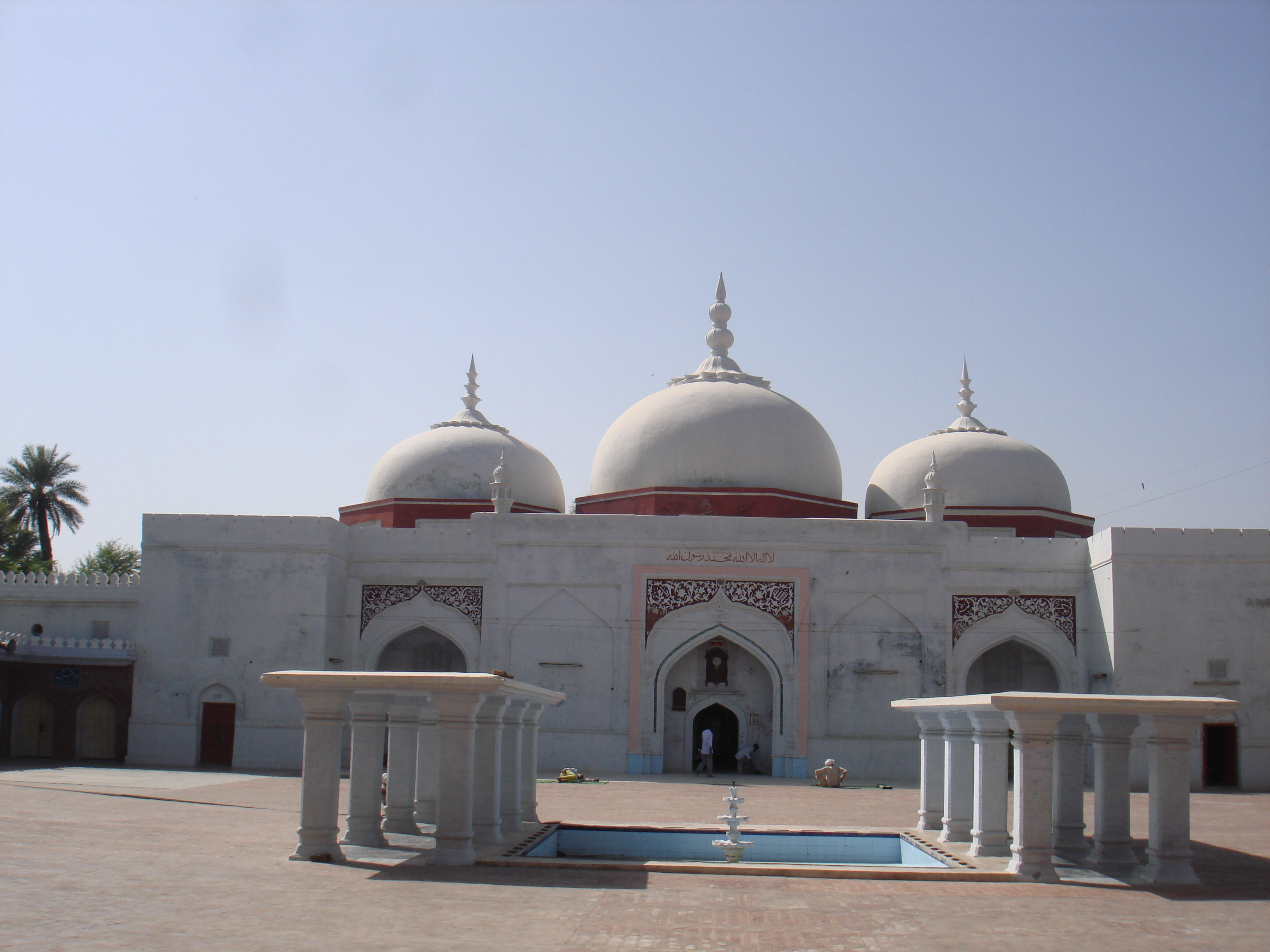 Central Mosque of Bhera